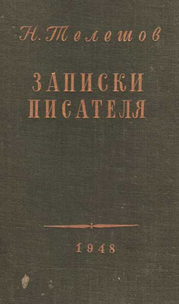 N.D.Teleshov, "The writer's memoirs", the cover of book